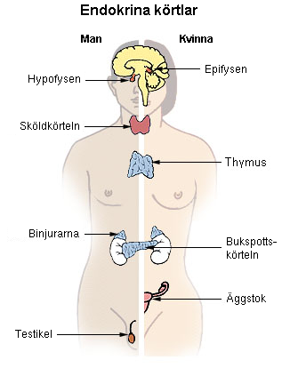 Shows the anatomical location of the endocrine glands with swedish texts.